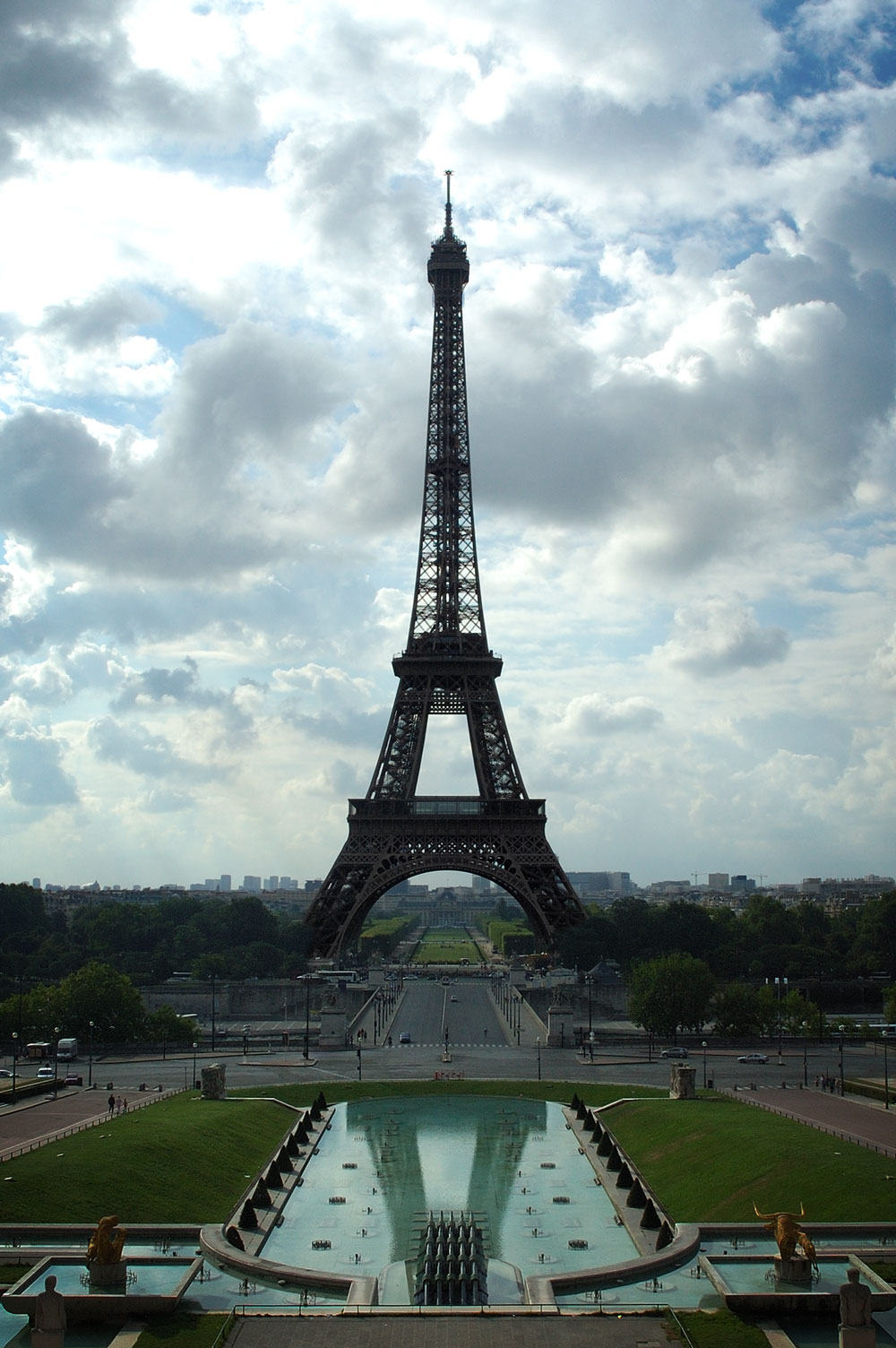 From the esplanade du Trocadéro, at 10:12 on the morning of the 16th of August 2005.